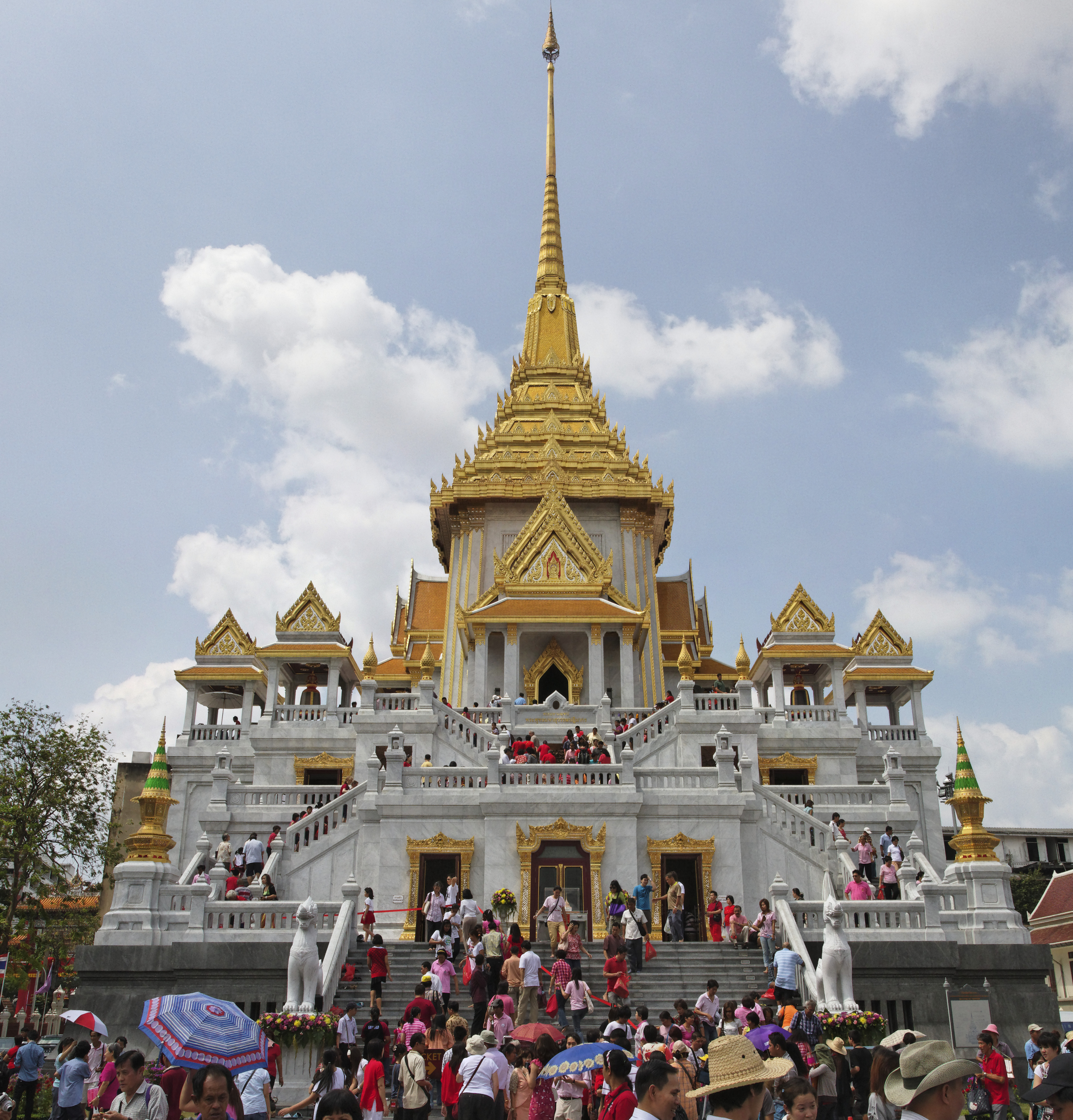 Wat Trimitr, Bangkok, Thailand